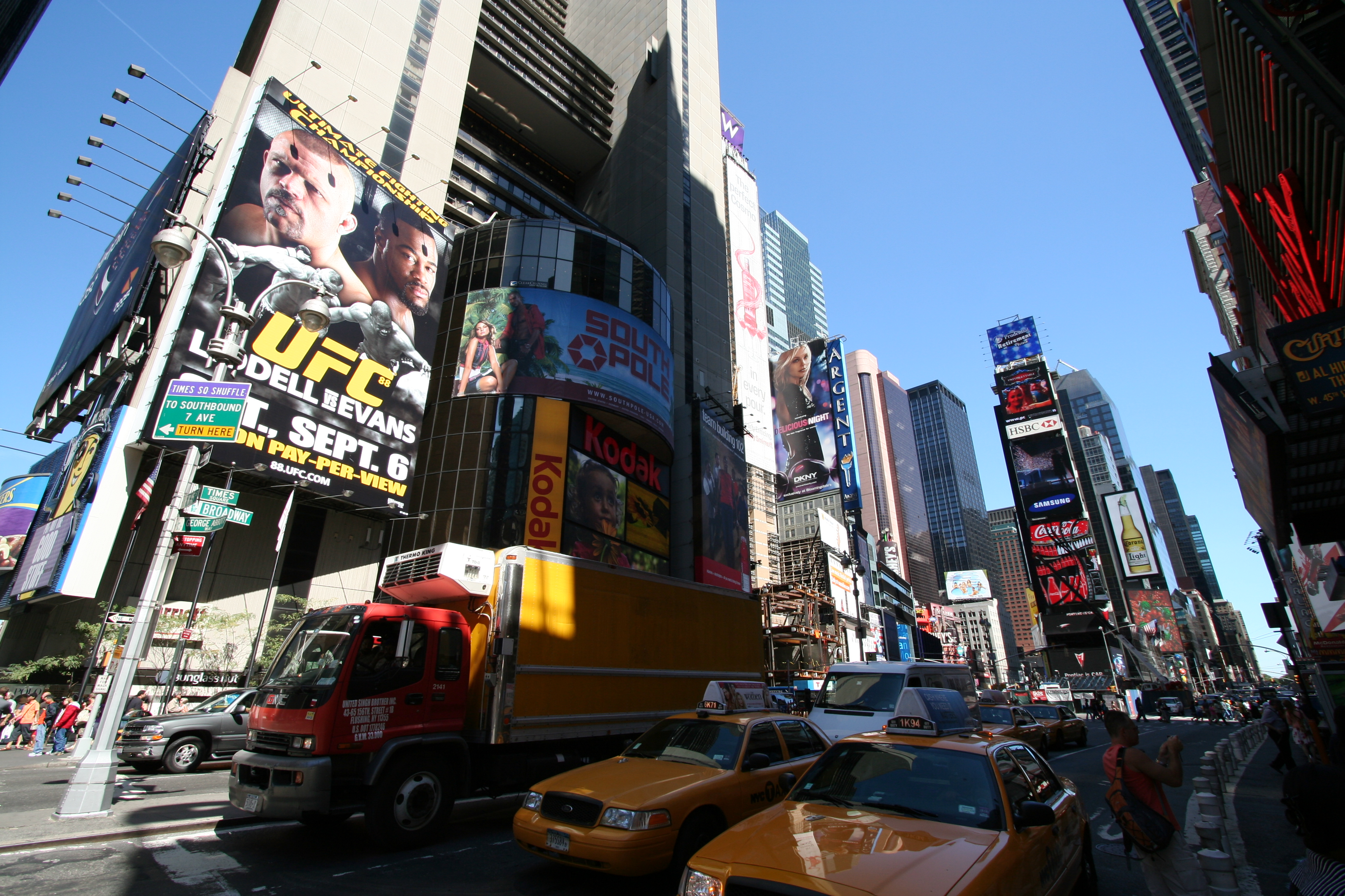 Billboard for "UFC 88: Breakthrough" at the corner of Broadway and 45th Street in Times Square in the Borough of Manhattan, New York City.